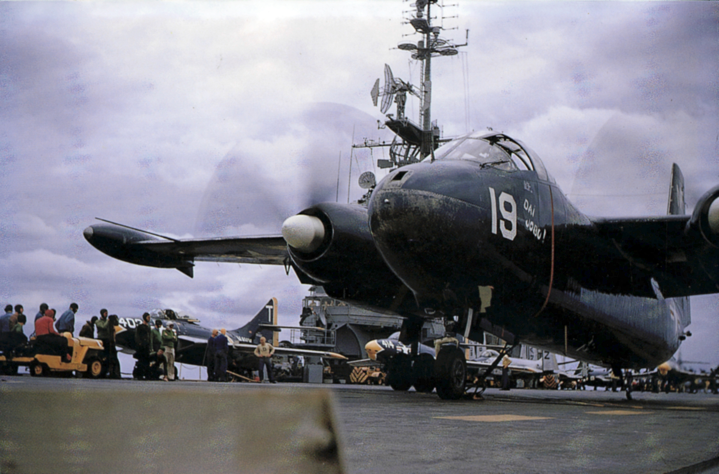 A U.S. Navy North American AJ Savage of Composite Squadron VC-6 Fleurs launching from the aircraft carrier USS Midway (CVA-41). Note "Dai Jobi!" painted on the left side of fuselage under cockpit. In the background are two Grumman F9F-6 Cougar fighters from Fighter Squadron VF-174 Hell Razors. The Midway was on a world cruise with Carrier Air Group 1 (CVG-1) from 27 December 1954 to 14 July 1955 before her first major conversion.